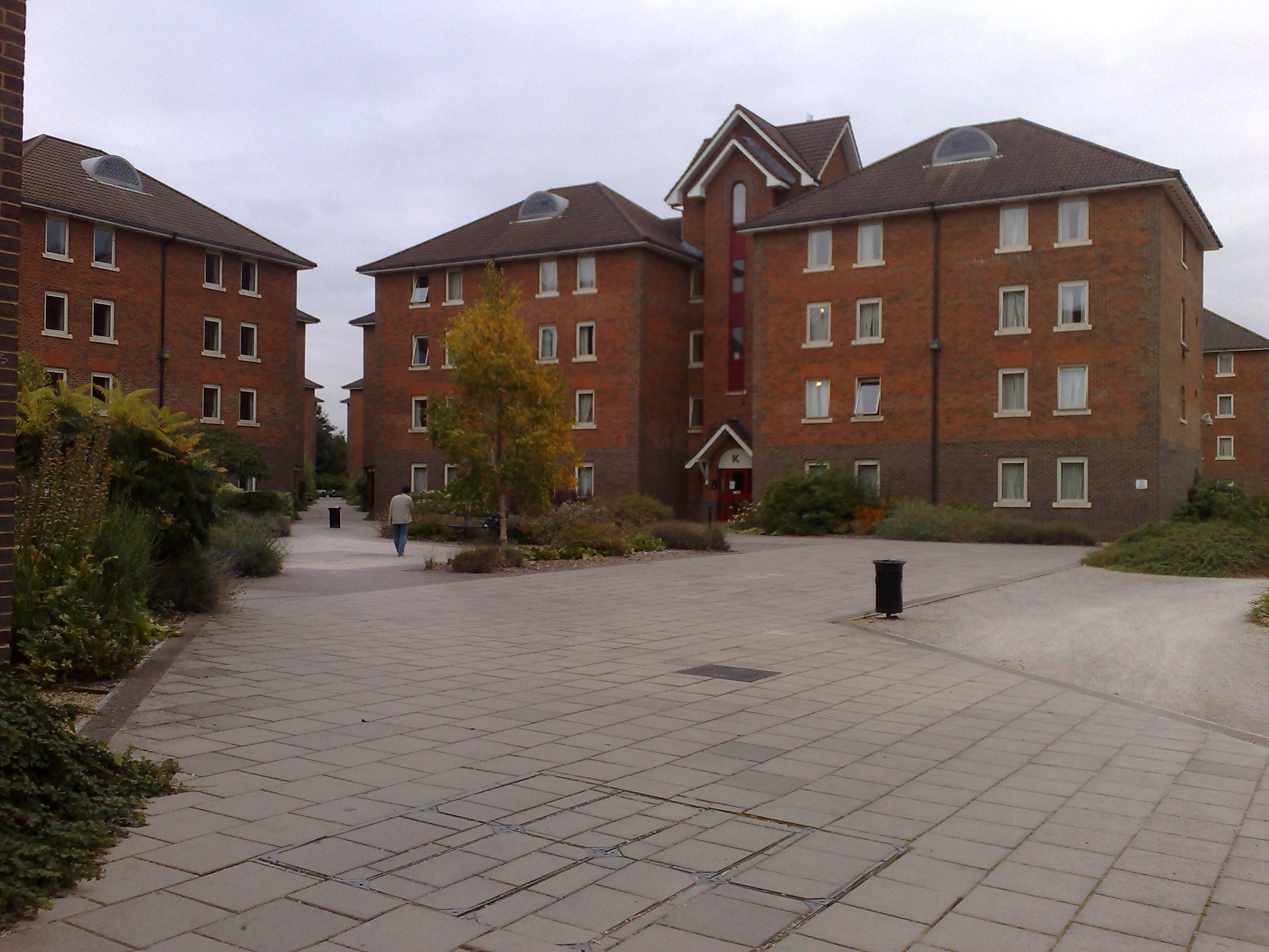 Montefiore House 3 of the Wessex Lane Halls, University of Southampton.